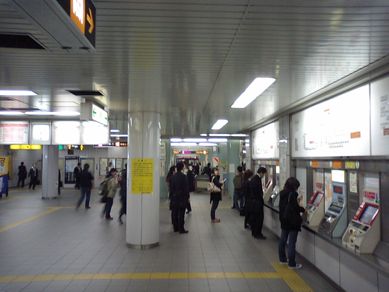 Ticket hall and Ticket gate of Minami-morimachi Station.JPG.